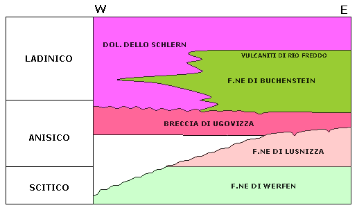 Stratigraphic scheme of Early-Middle Triassic in Friuli (North-eastern Italy).